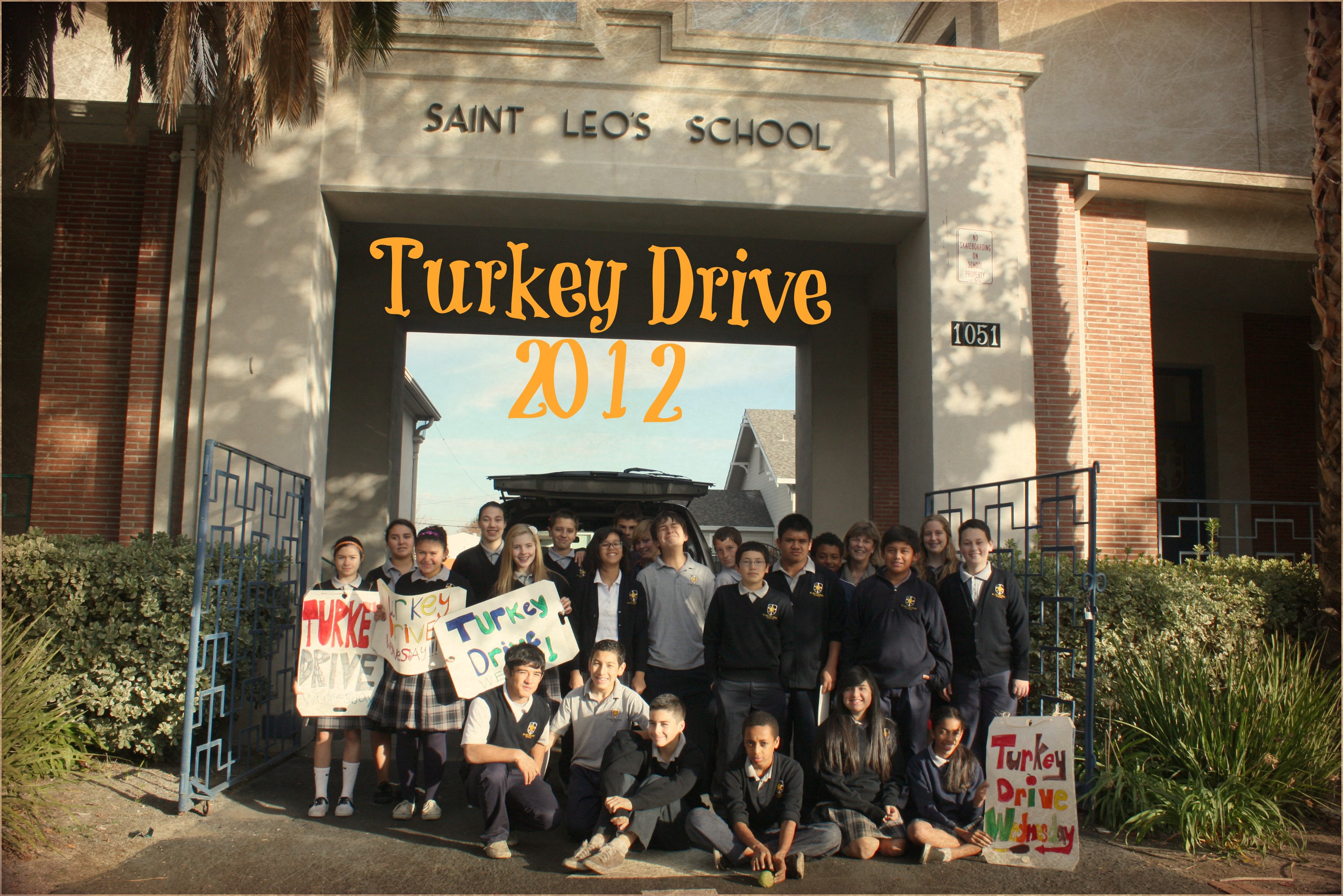 8th grade class of 2013 at St leo the Great School collected 132 turkeys for Sacred Heart Services to distribute to the needy at Thanksgiving.